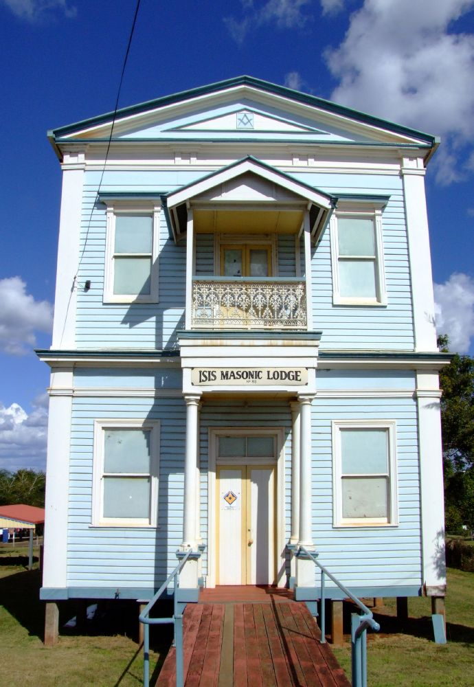 Isis Masonic Lodge, front view (2008)